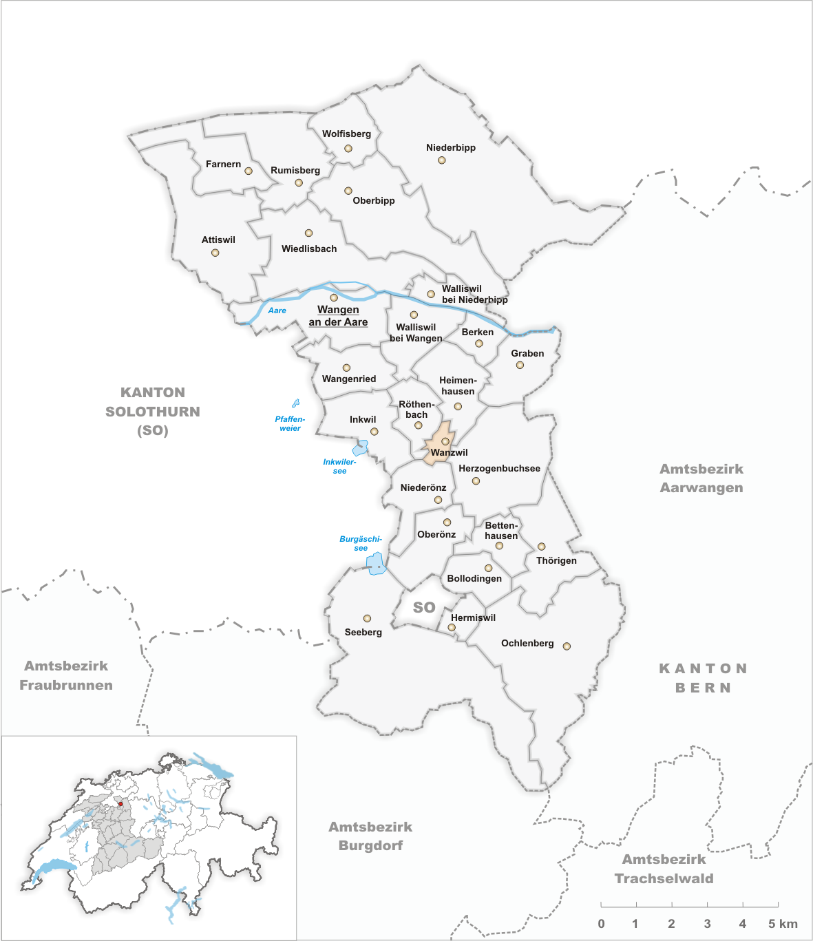 Municipality Wanzwil